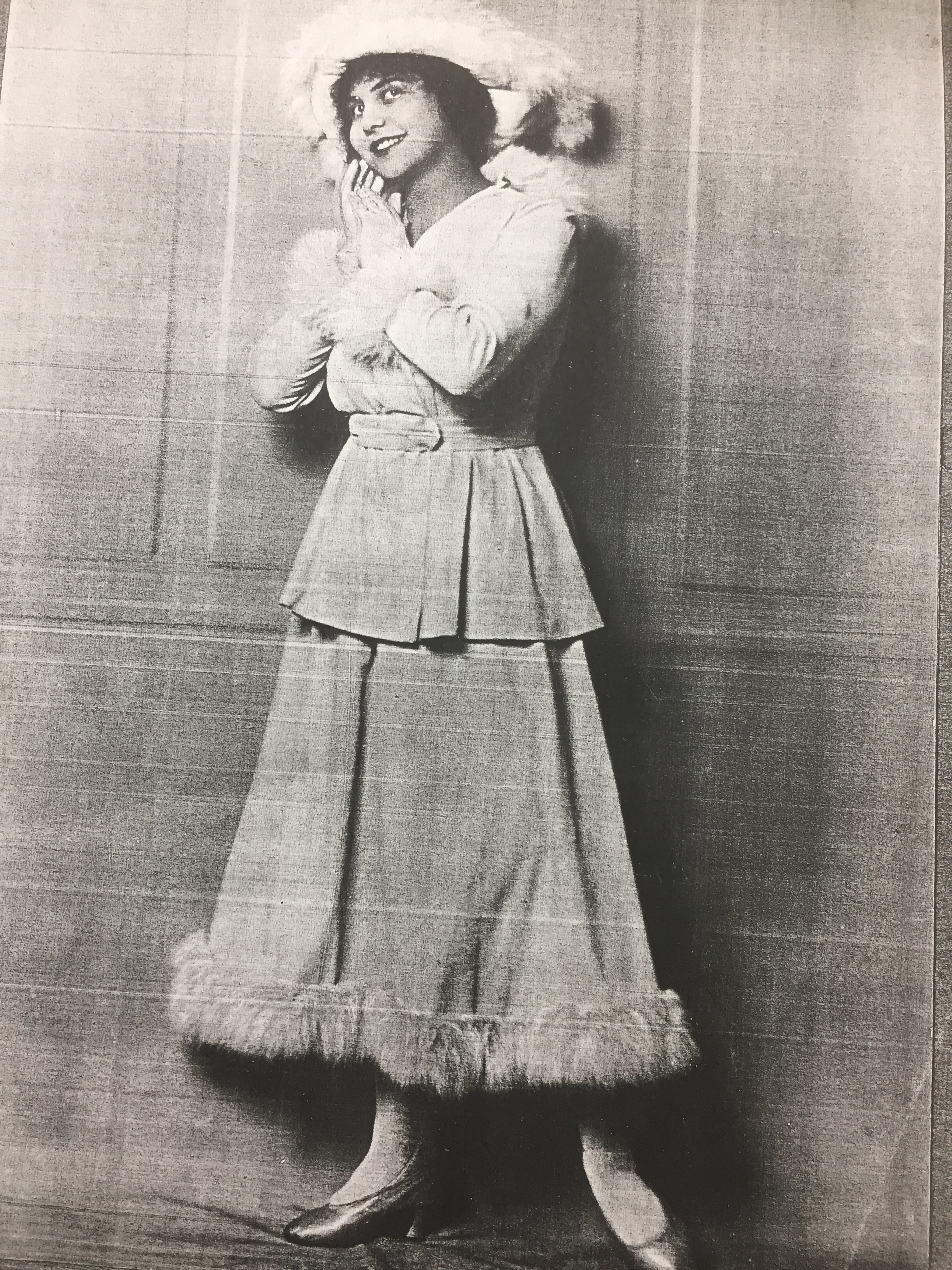 Picture of pubicity photo